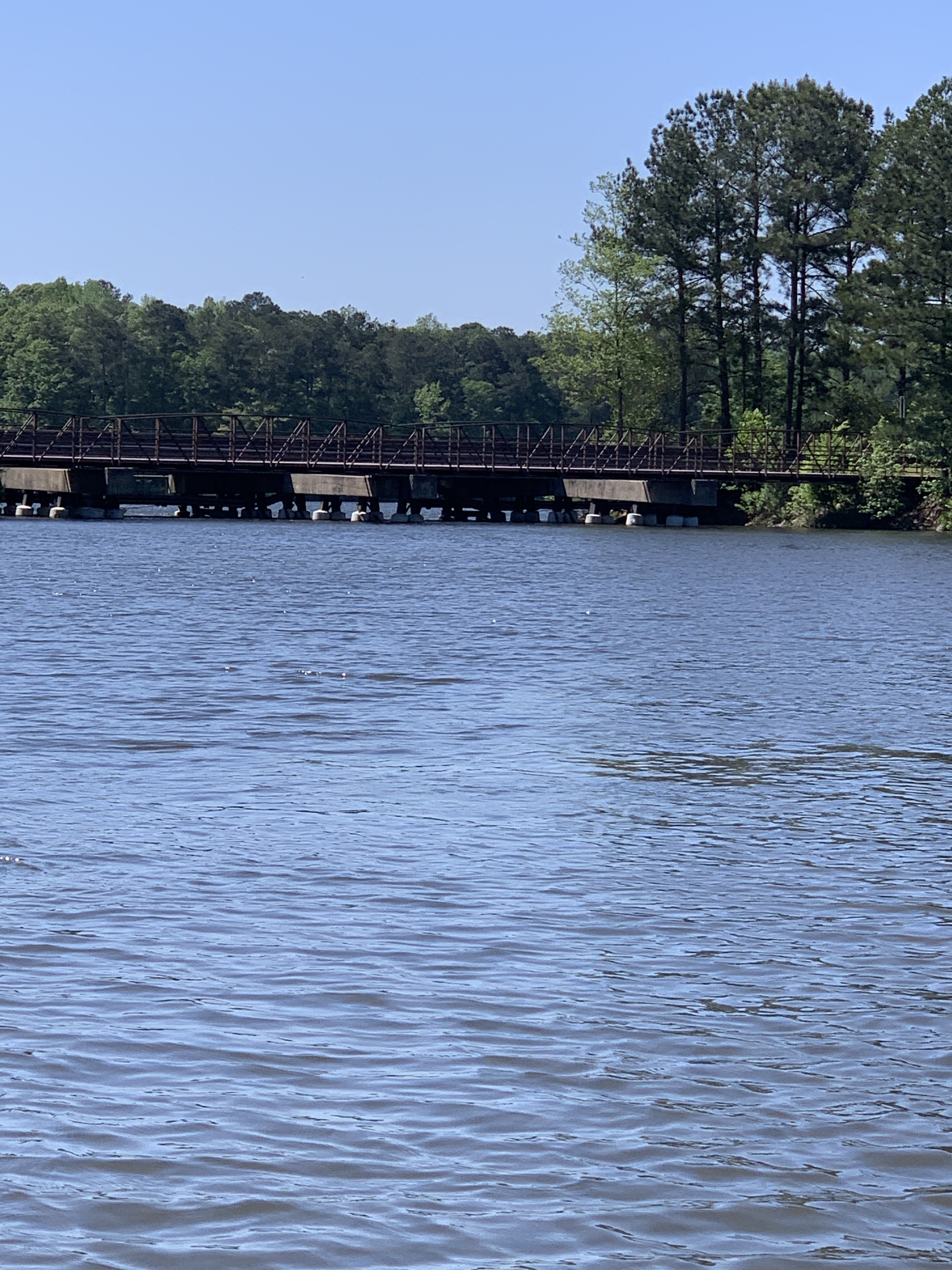 Peachtree Parkway and golf cart path bridges over Lake Kedron